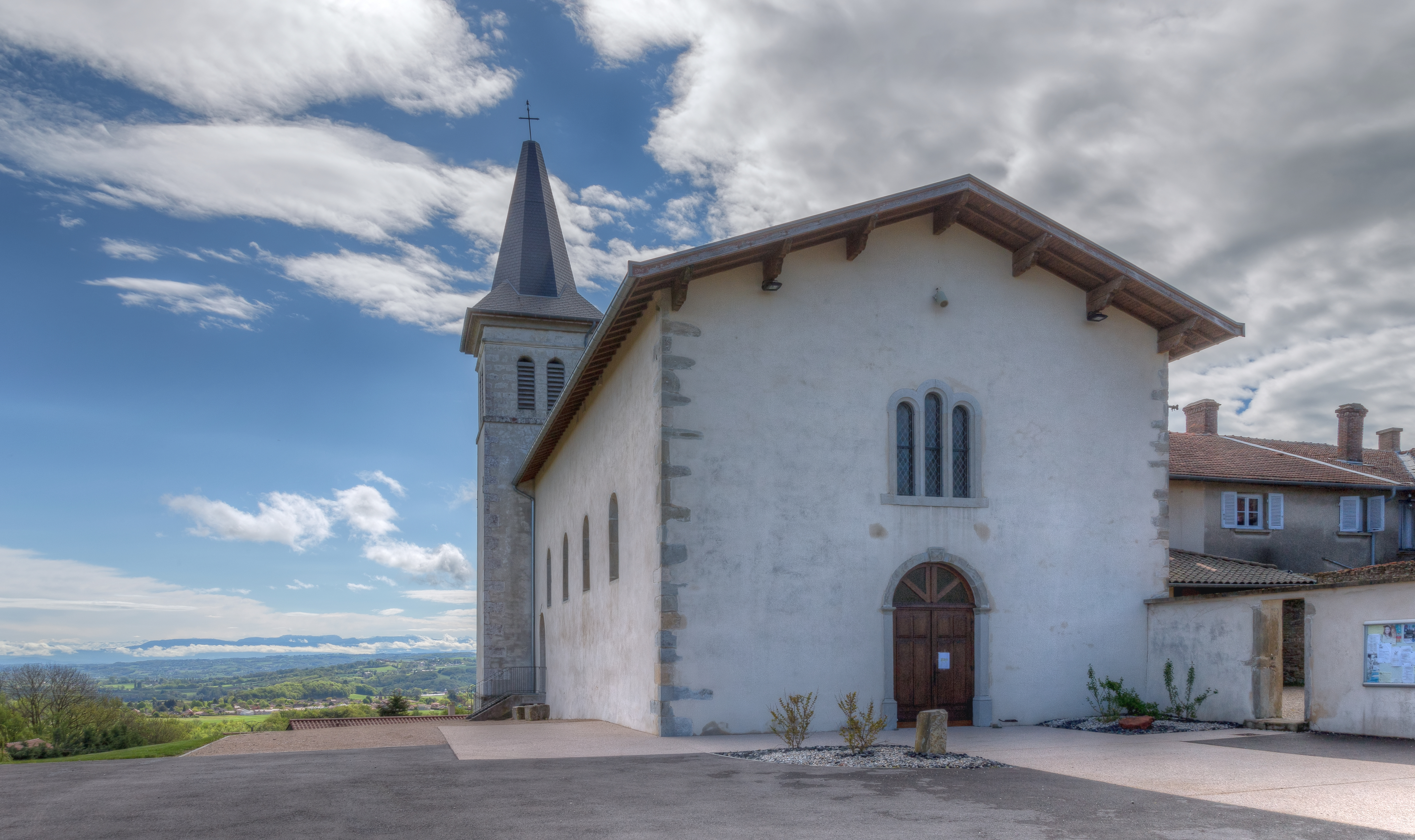 Saint-Bonaventure-de-Paternos Church, Maubec, Isère. The church and the old convent on the right, on their promontory in front of the panorama towards the Alps.